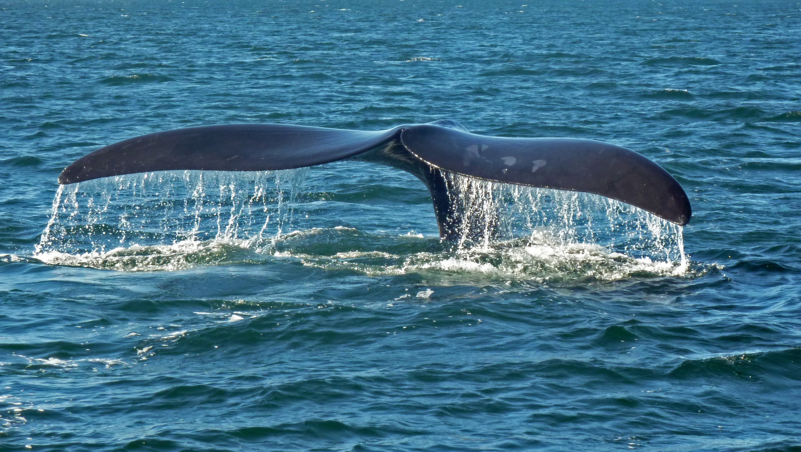 caudal fin of a southern right whale (Eubalaena australis) near Valdés, Chubut, Argentina. This image is a derivative work of the following images: Southern right whale caudal fin-2.JPG licensed with Cc-by-sa-3.0 2011-07-24 16:14 (UTC) Dr.Haus